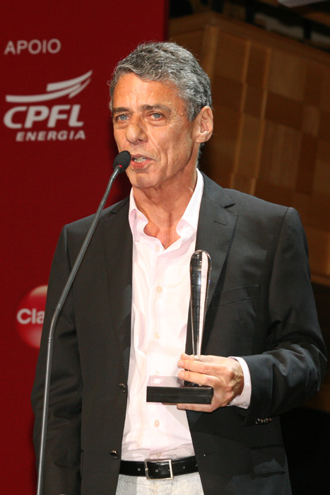 Chico Buarque receiving his award for best book in the 5th edition of the award BRAVO! Prime de Cultura in 2009.